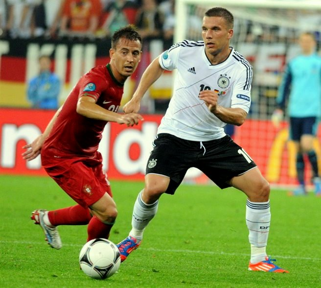 Match between Germany and Portugal during UEFA Euro 2012 that took place in Lviv. Final score was 1:0 (Gómez).